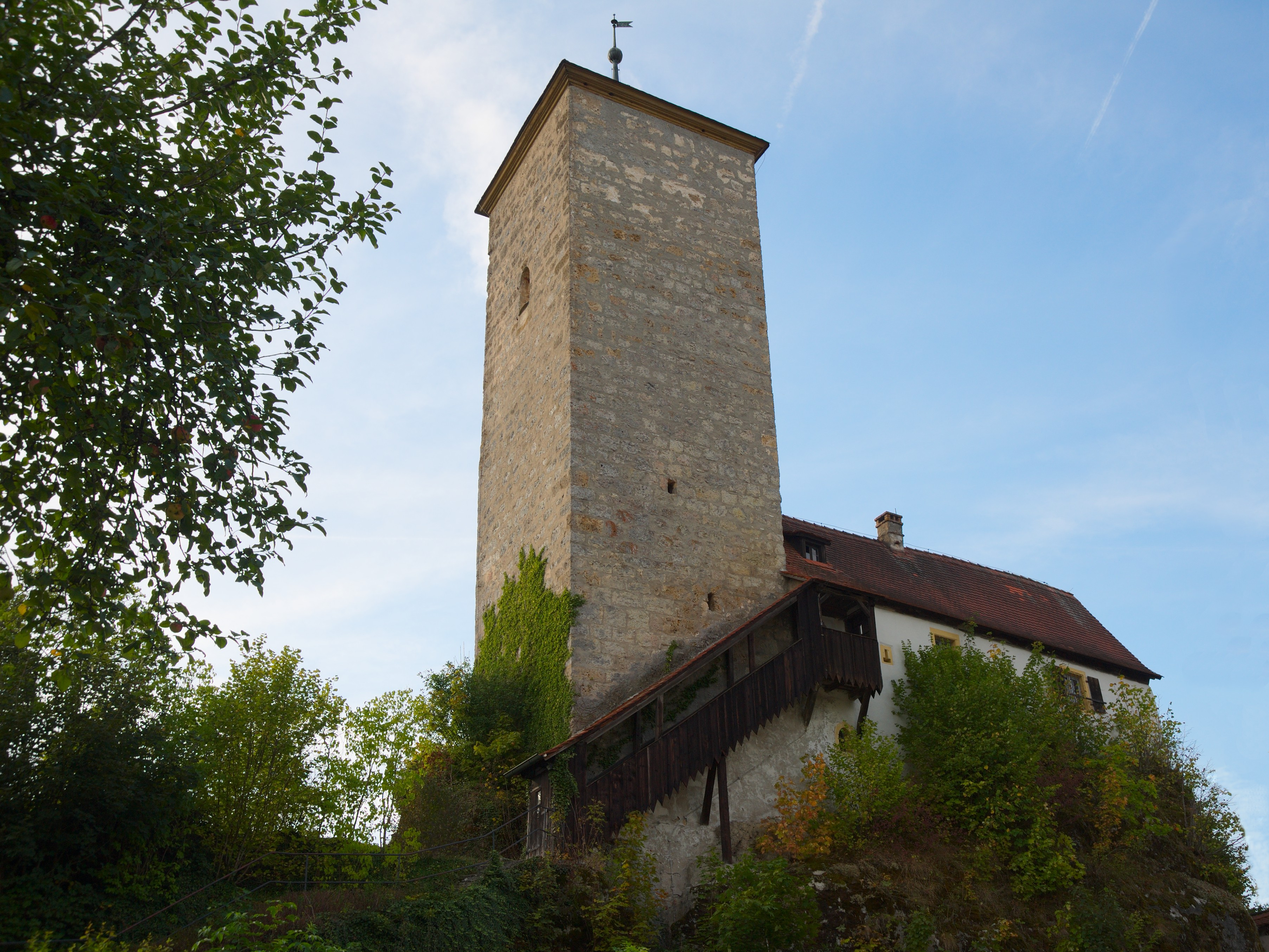 castle Unteraufseß: bergfried and house Meingoz, Bavaria, Upper Franconia